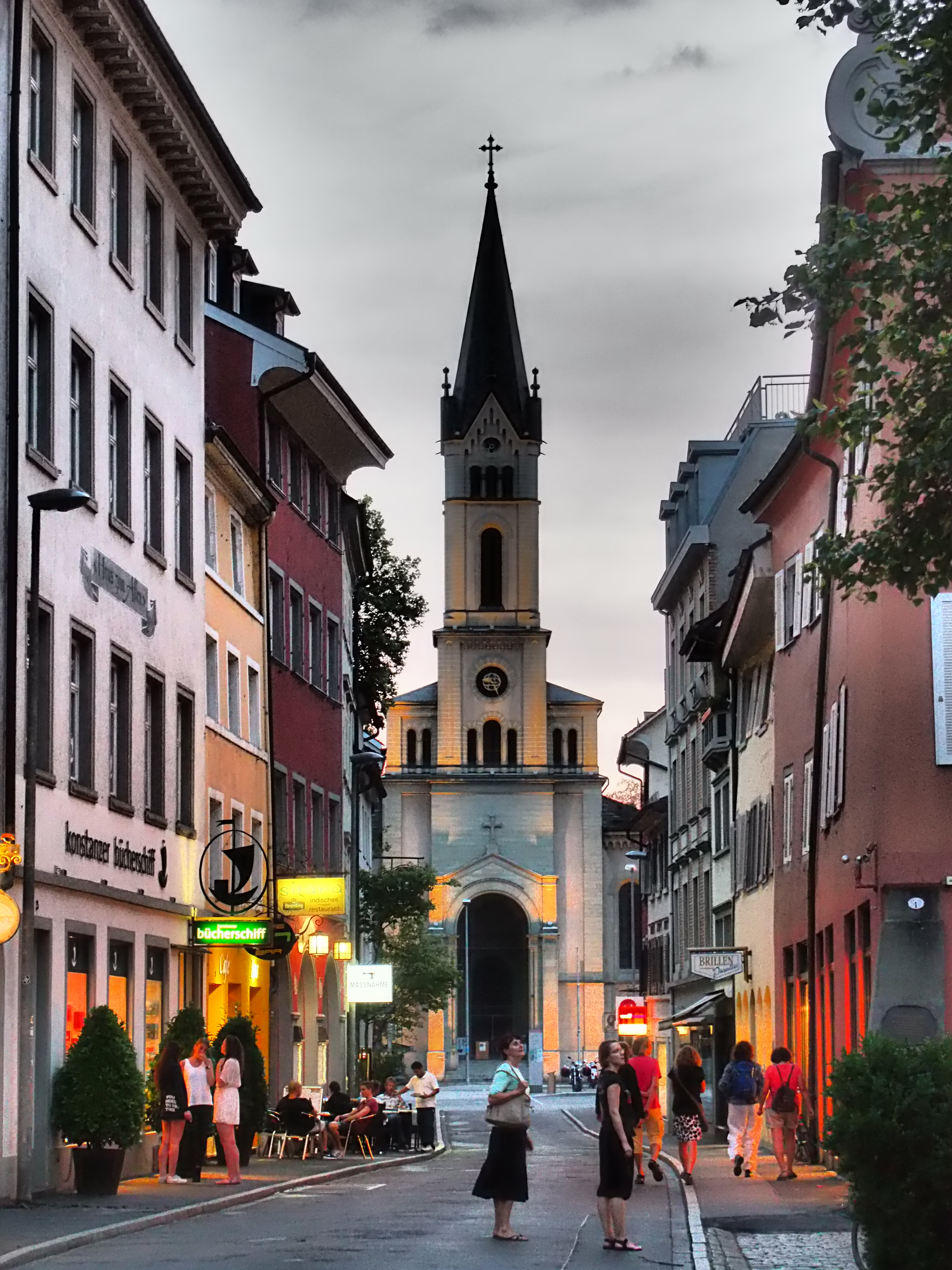 Looking through the Paradiesstrasse to Luther Church in Konstanz.